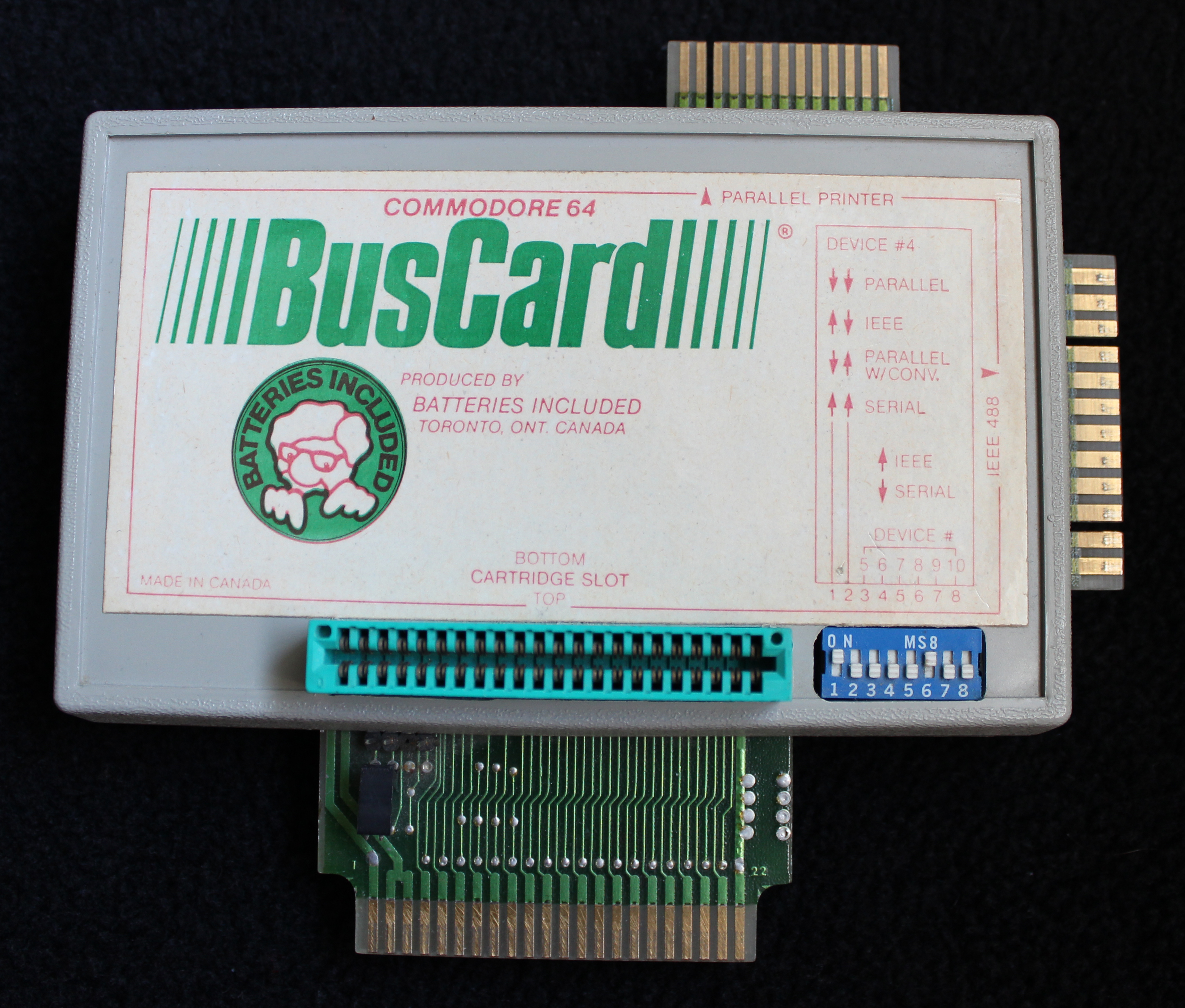 An IEEE-488 and parallel printer interface, which also provides BASIC 4.0 and an assembler and disassembler.